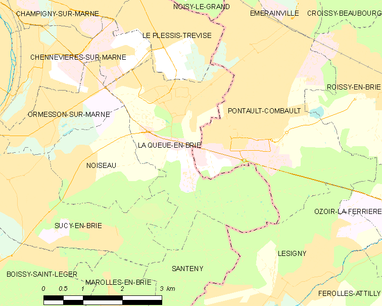 Map of French municipality La Queue-en-Brie